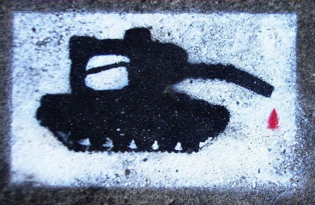 Blood dripping from a tank with a Gas pump for a turret.